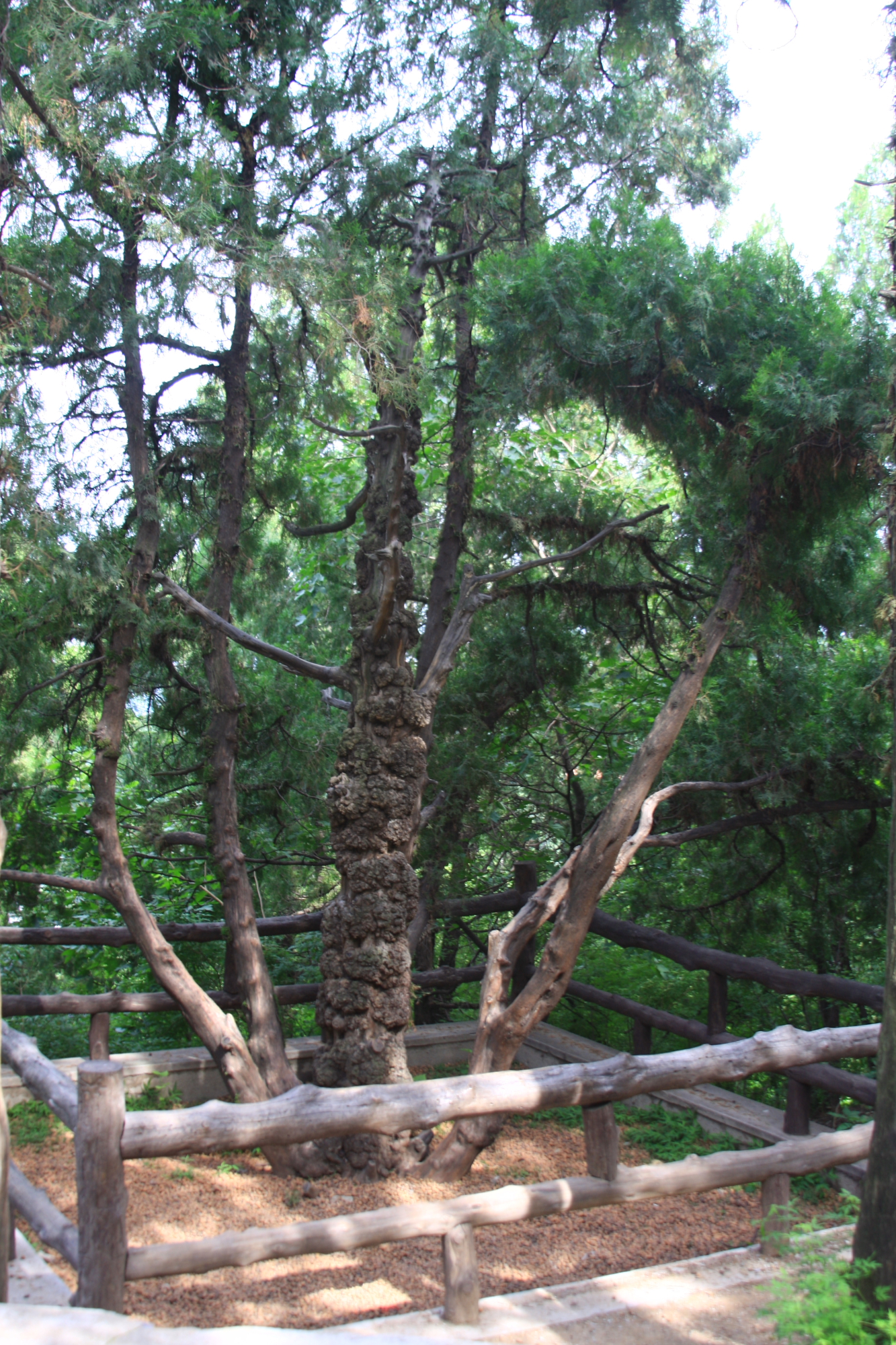 Old Platycladus orientalis tree. Fragrant Hills, Beijing.